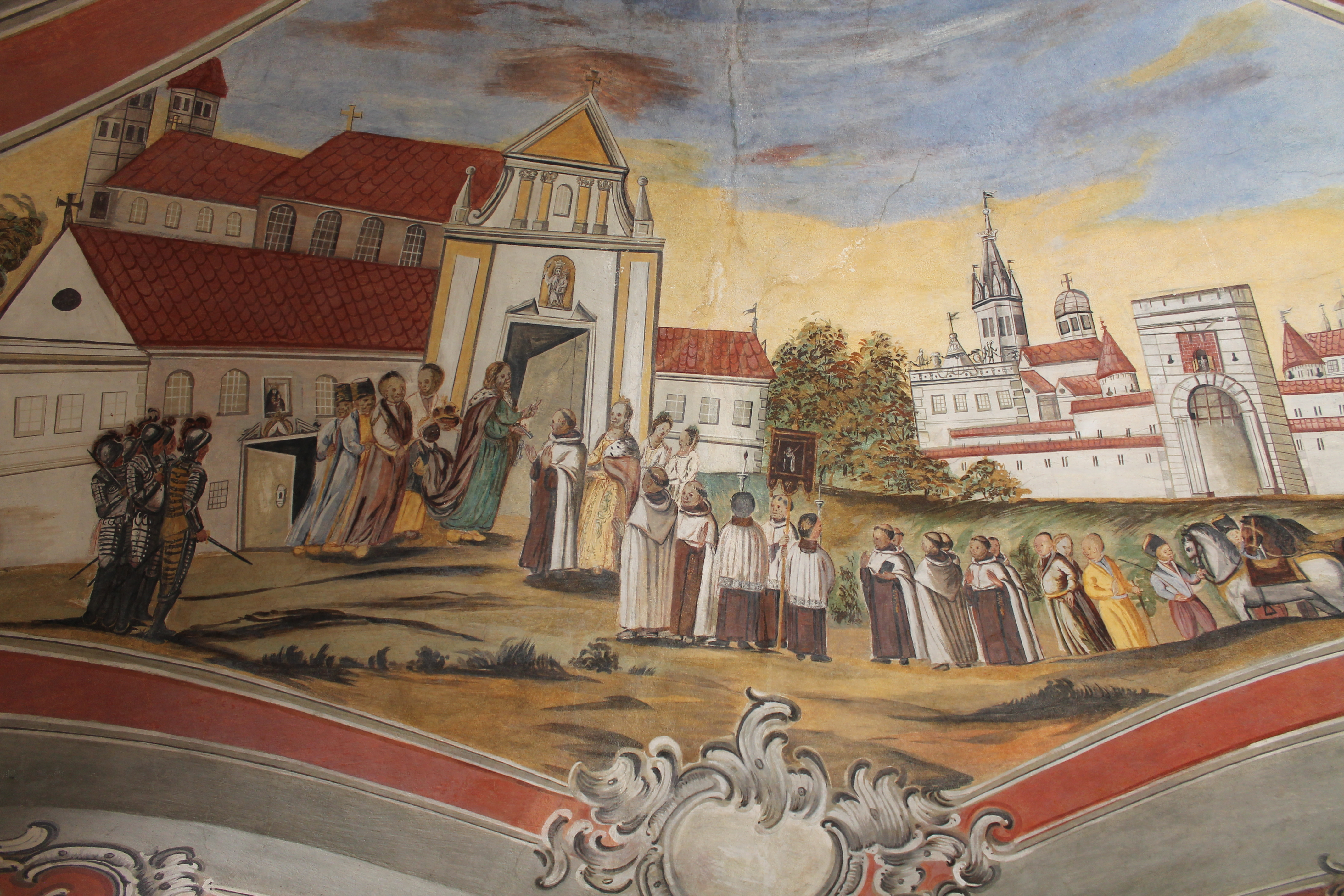 Carmelites, Karmelicka 19 Cracow